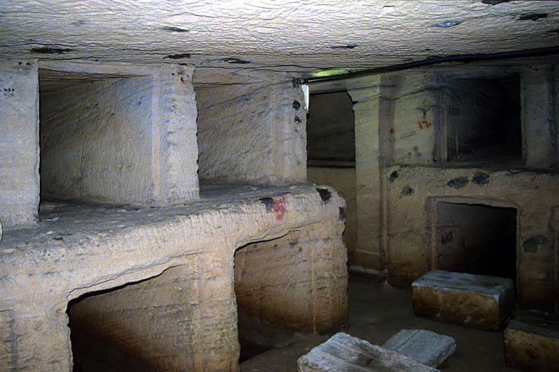 Graves in the catacombs, Kom el-Shuqafa, Alexandria, Egypt